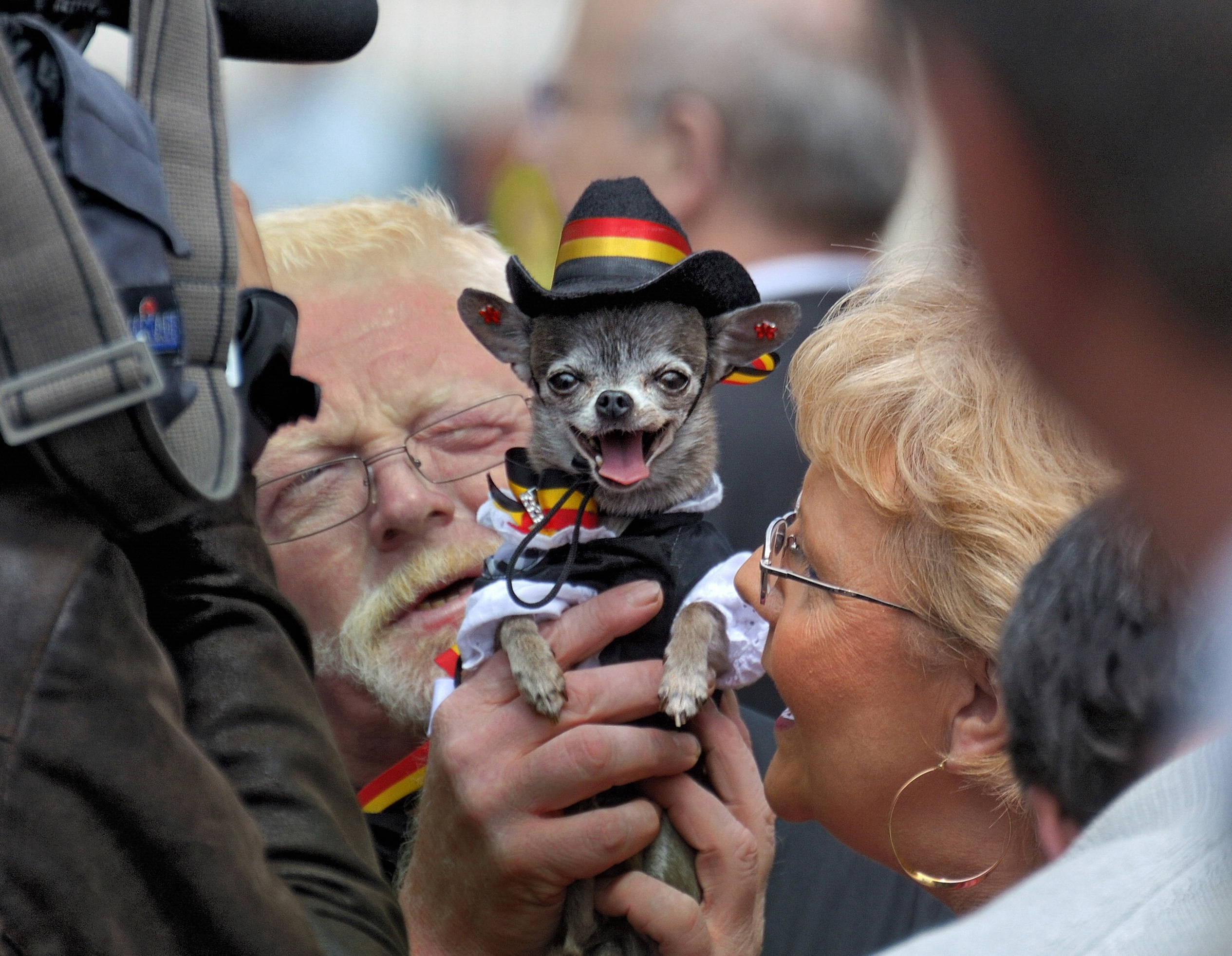 Dog as TV star in Belgian National Day at Brussels. 2012